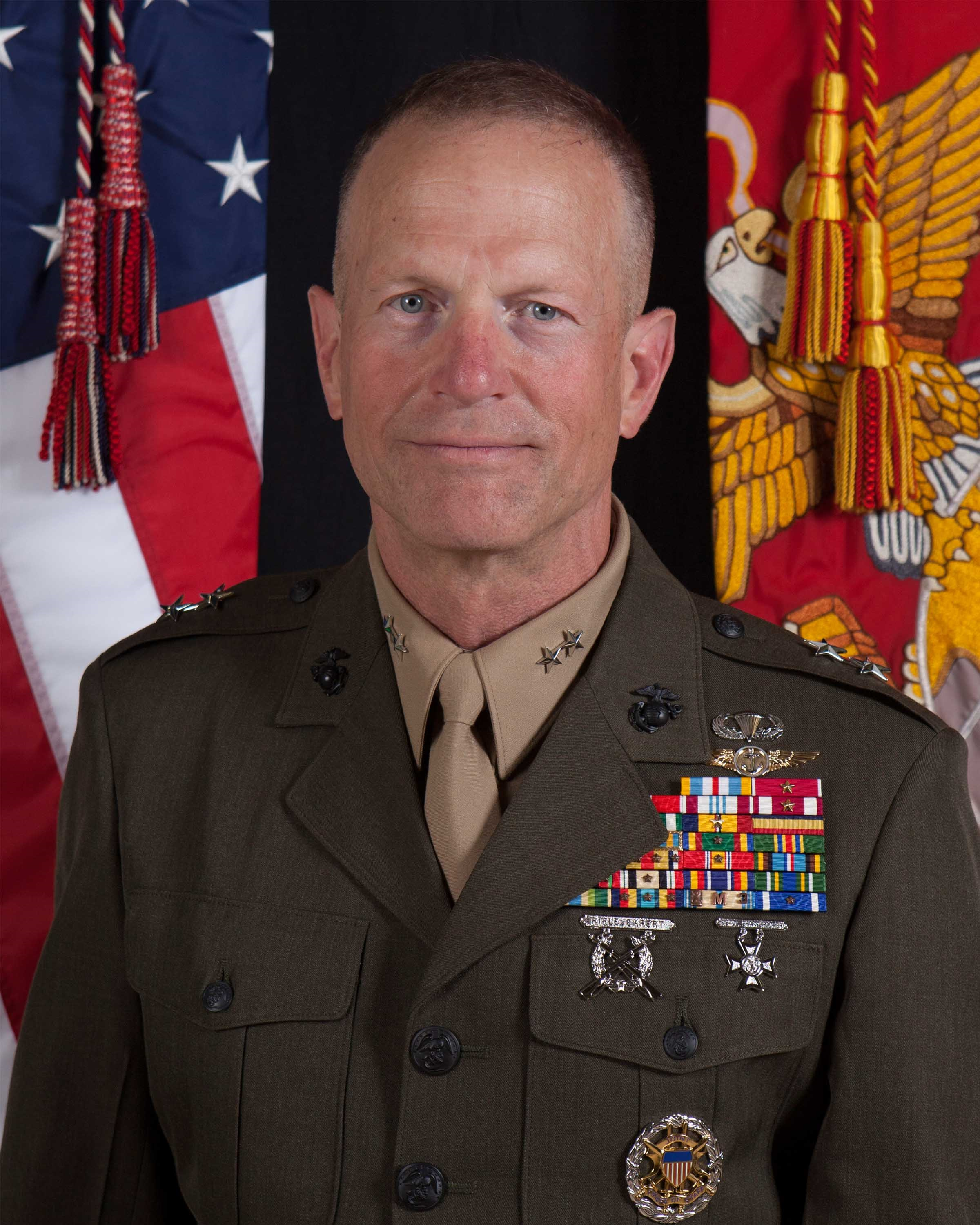 Maj. Gen. Burke W. Whitman